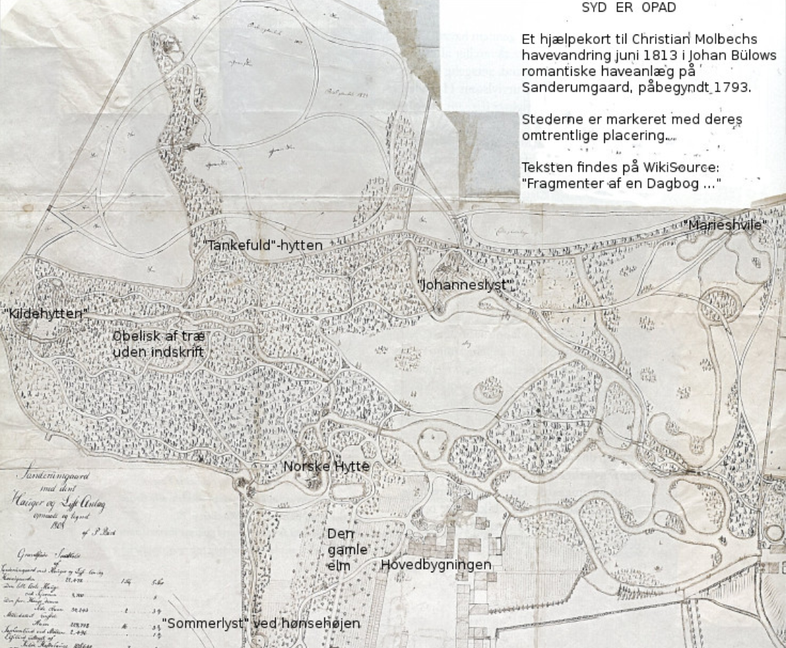 A map with locations according to the description by Christian Molbech in his "Fragmenter af en Dagbog skreven paa en Reise i Danmark 1813" ('Fragments of a diary written on a journey in Denmark 1813') - June 1813 Molbech paid a visit to Johan Bülow at Sanderumgaard by Odense and made a description of the romantic garden there. NB: South is upward